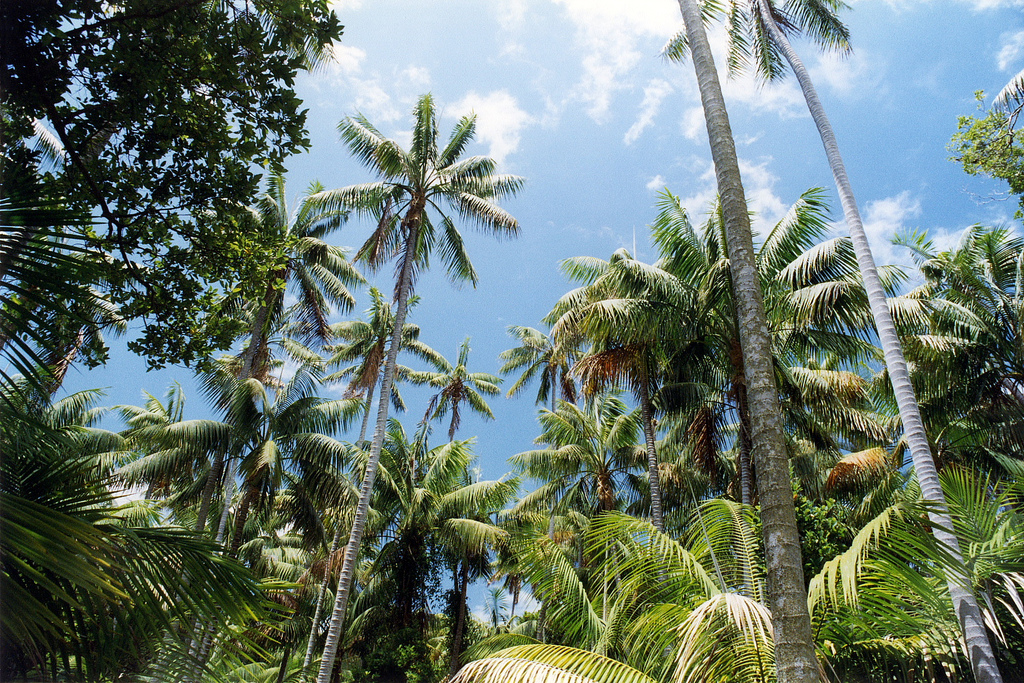 Kentia palm (Howea forsteriana) forest on Lord Howe Island, where the species is endemic.